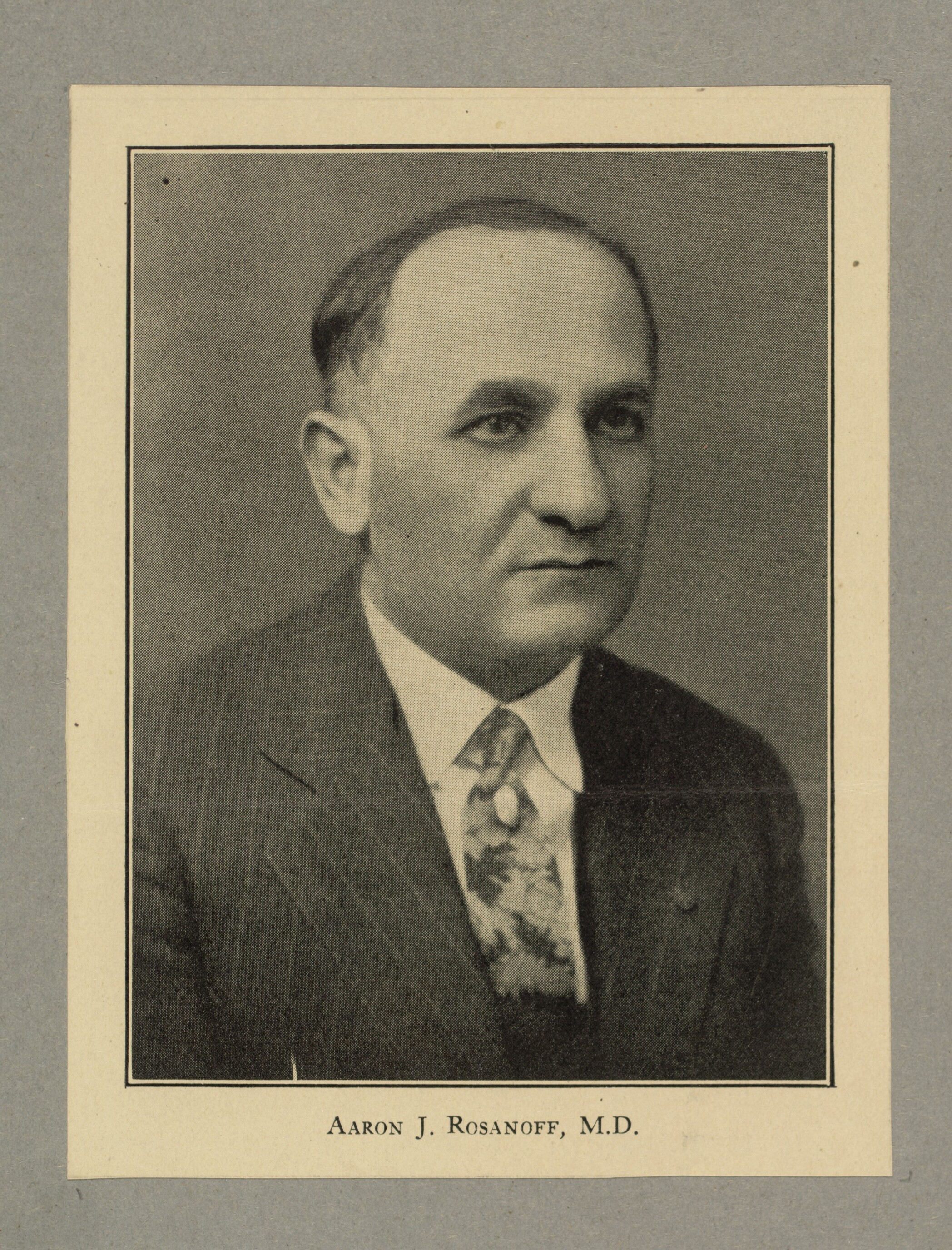 Psychiatrist Aaron Joshua Rosanoff (1878-1943).